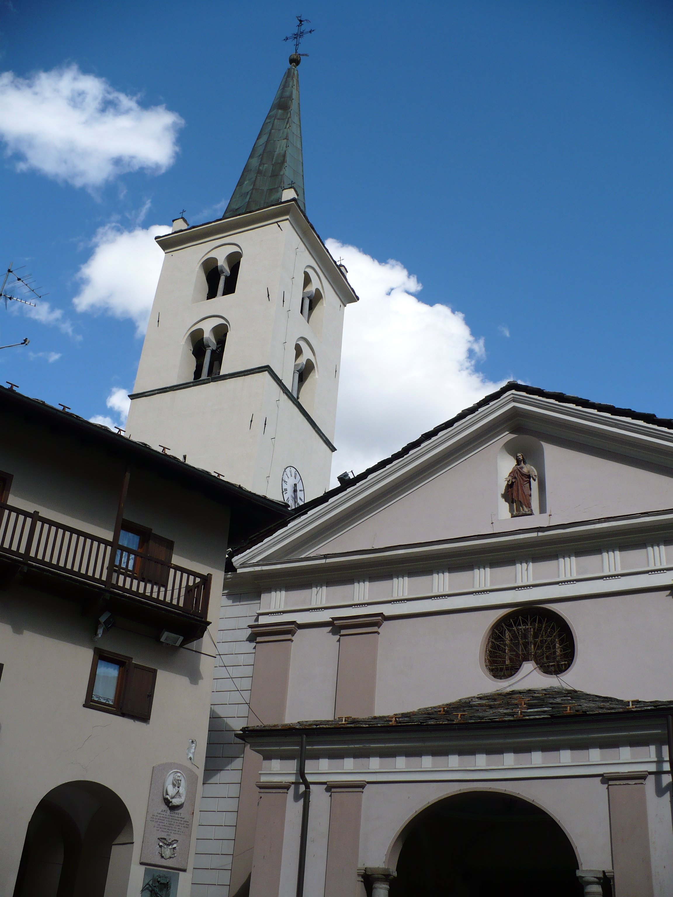 Valtournenche - Aosta Valley - Italy